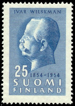 Postage stamp depicting Finnish professor Ivar Wilskman